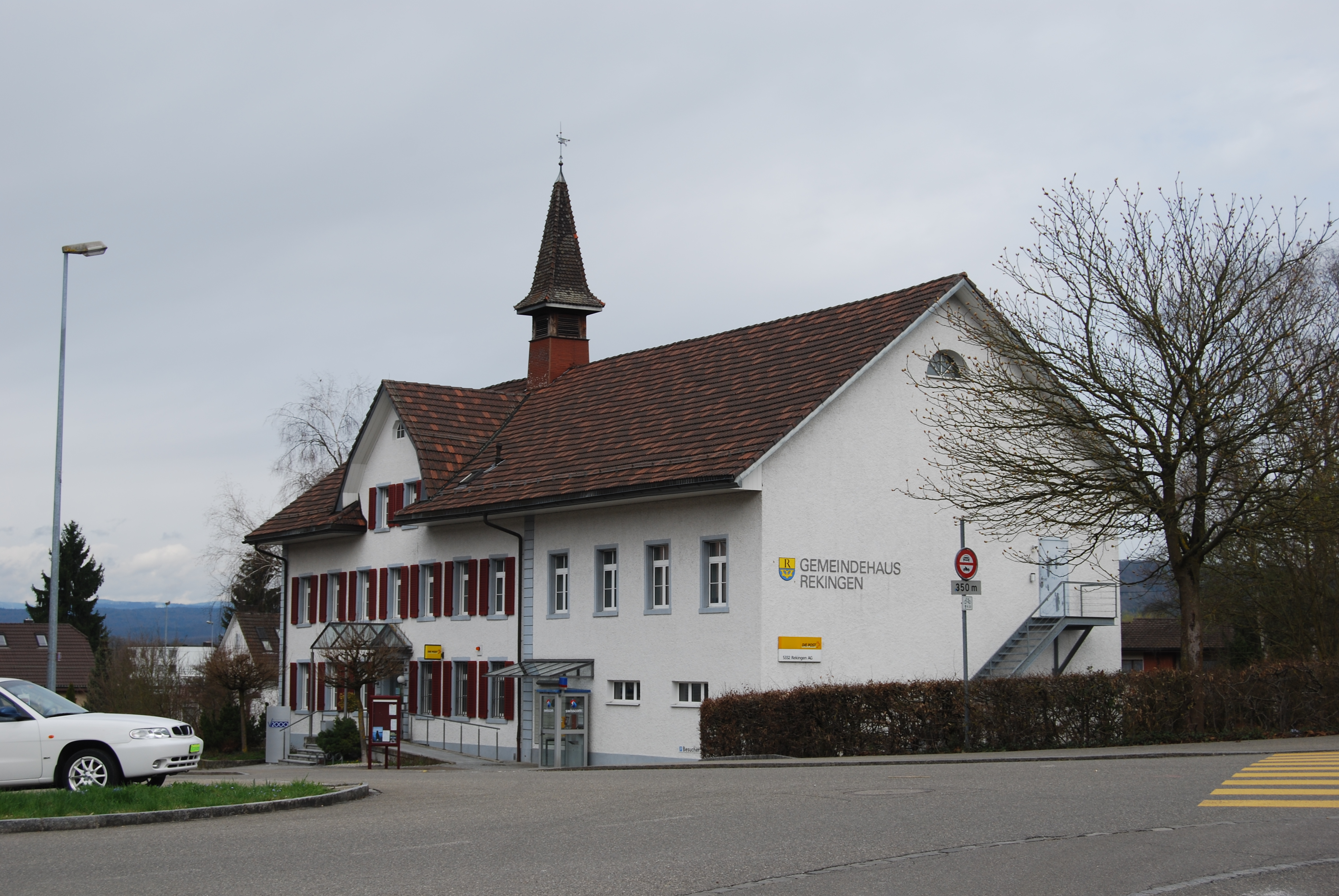 Municipal administration of Rekingen, canton of Aargau, SwitzerlandEsperanto: Komunuma domo de Rekingen, Kantono Argovio, Svislando